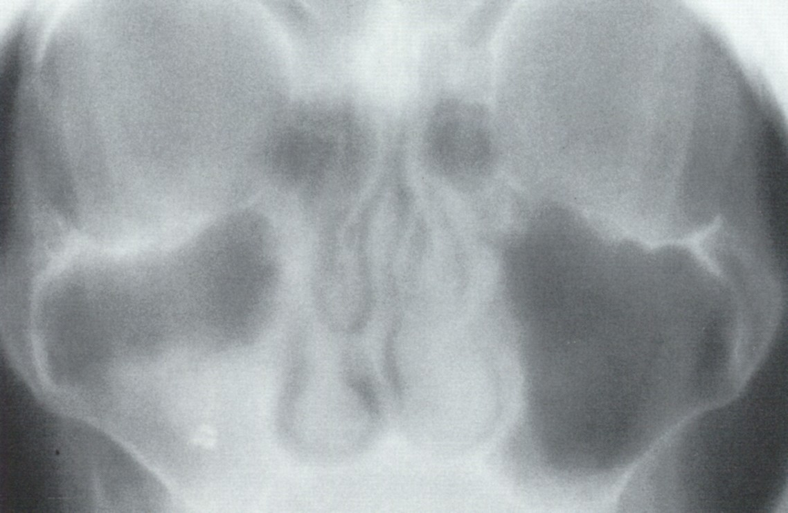 Conventional tomography based on Allesandro Vallebona